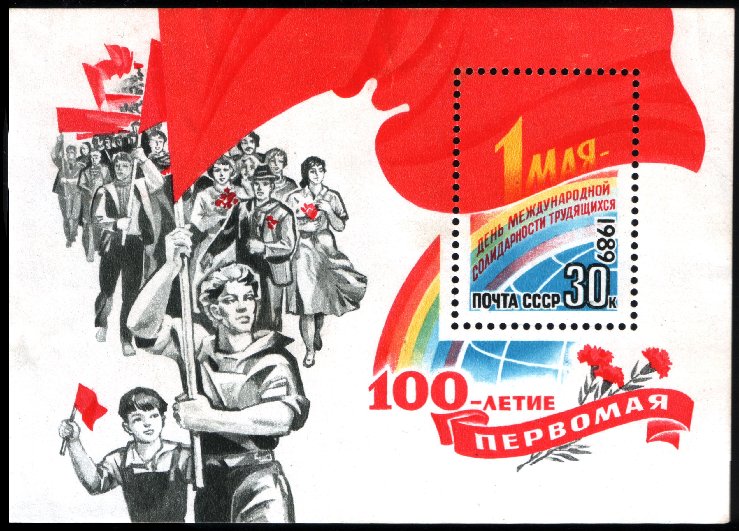 Sheet of 1 of USSR, Centenary of Declaration of 1st May as Labour Day, 1989